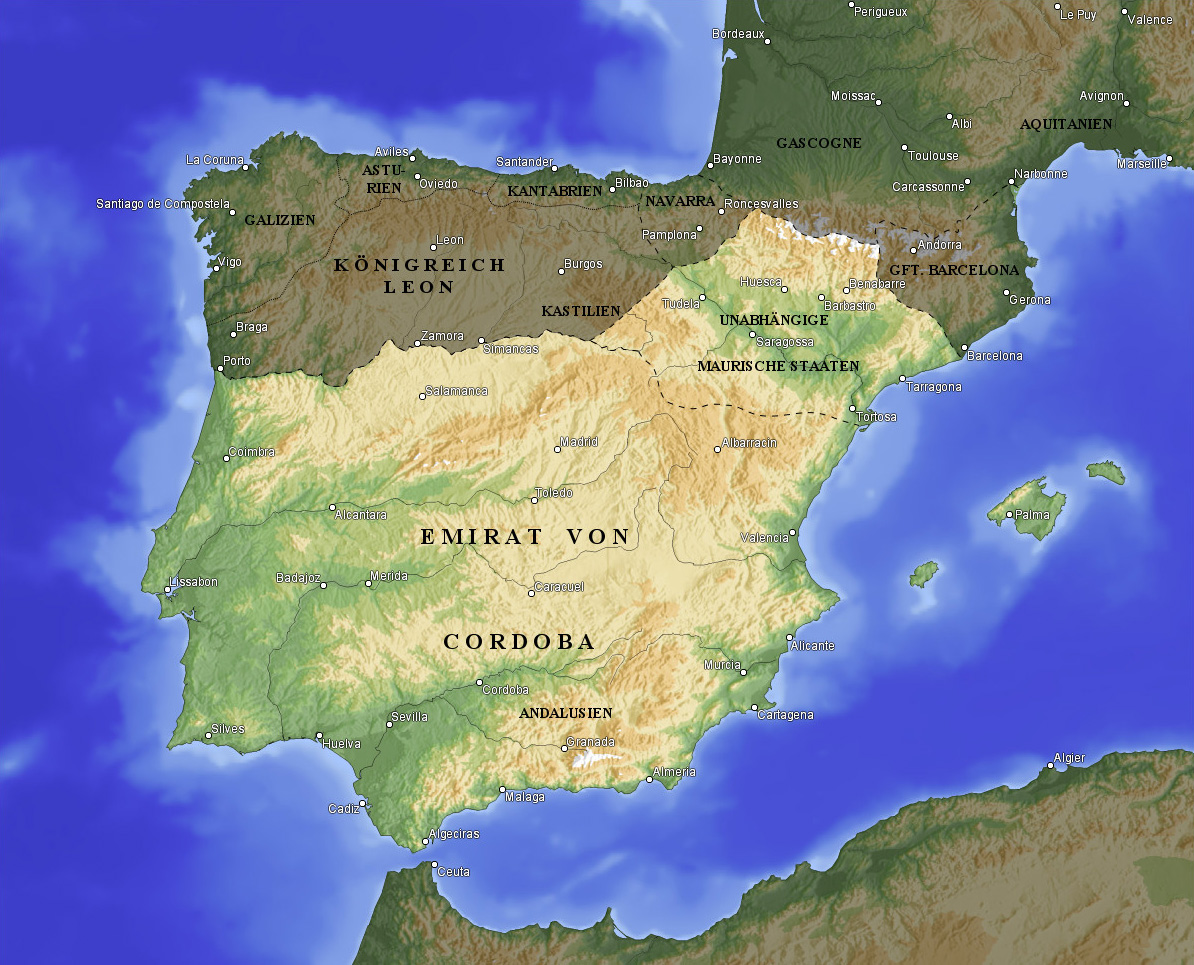 The Al-Andalus Iberian Peninsula c. 910